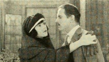 Still from the American film Missing Millions (1922) with Alice Brady and David Powell, page 65 of the December 1922 Photoplay.